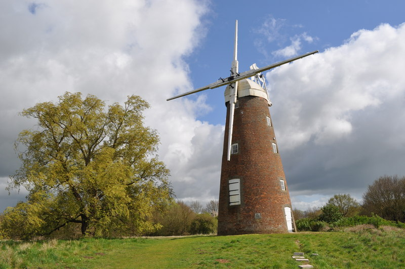 Billingford Mill, near to Billingford, Norfolk, Great Britain. A windmill, closed to the public. It seems to of losts its sails recently. All the information on here Link